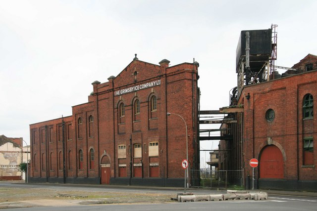 The Grimsby Ice Factory On Fish Dock Road, the listed Grimsby Ice Company building is now redundant, but at its peak of production produced 1,250 tons of ice each day.